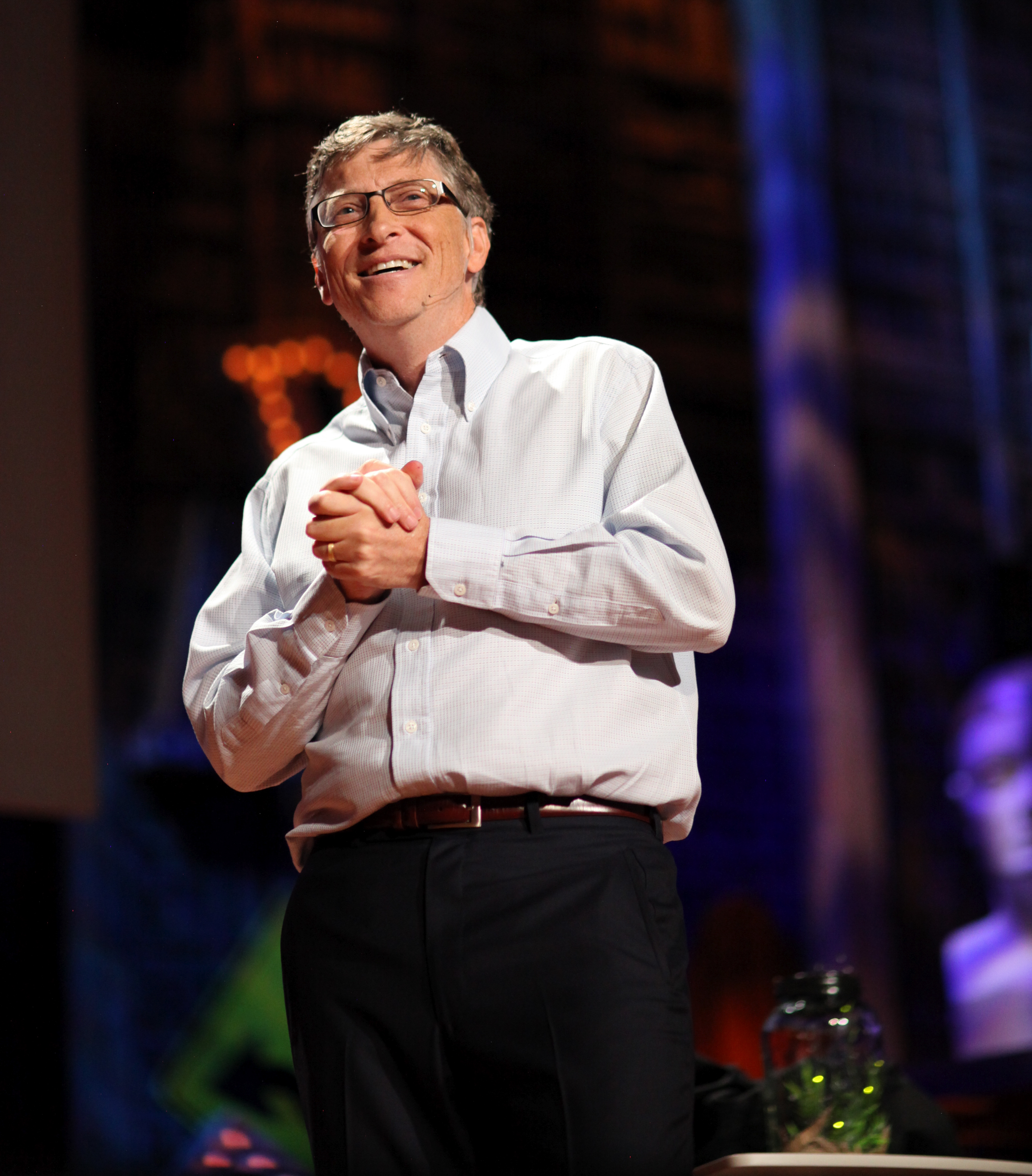 ?with his jar of fireflies on stage. Bill Gates: "If you gave me only one wish for the next 50 years, it'd be to invent the thing that halves the cost energy with no CO2. This is the one with the greatest impact." Pretty sweeping statement for someone involved with many public health and welfare projects? (around minute 17:00) Gates: ?We need an energy miracle. Usually we don?t have a deadline. This is a case where we have to drive at full sped and get a miracle on a tight timeline.? ?All the batteries on Earth can store less than 10 minutes of the world?s energy needs.? The video of his talk just went online. My favorite parts are near the end, especially the Q&A on new nukes (fast breeder reactors that burn a U238 duraflame log for 60 years, with 99% efficiency vs 1% for today?s U235 reactors. No fuel to reload or waste to ship around. Existing nuclear waste could be used as fuel. He is funding Nathan Myhrvold?s Terrapower, which be testing this new reactor? in Russia). Around minute 19:00 By a show of hands, 75% of the TED audience was already pro-nuke as the solution.